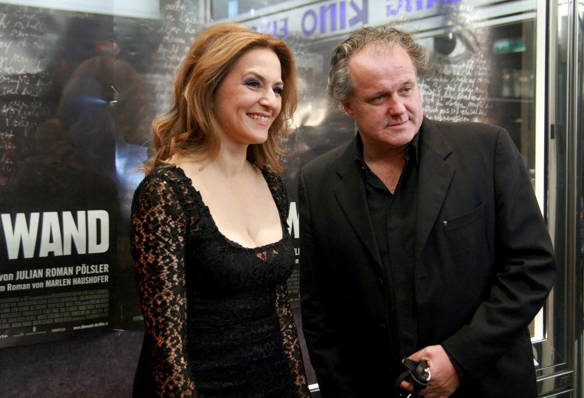 Martina Gedeck and Julian Pölsler at the Austrian premiere of Die Wand (The Wall) at Gartenbaukino in Vienna, Austria.